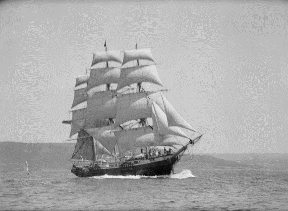 Fully rigged ship „Joseph_Conrad“ (ex „Georg Stage I“) under full sails.